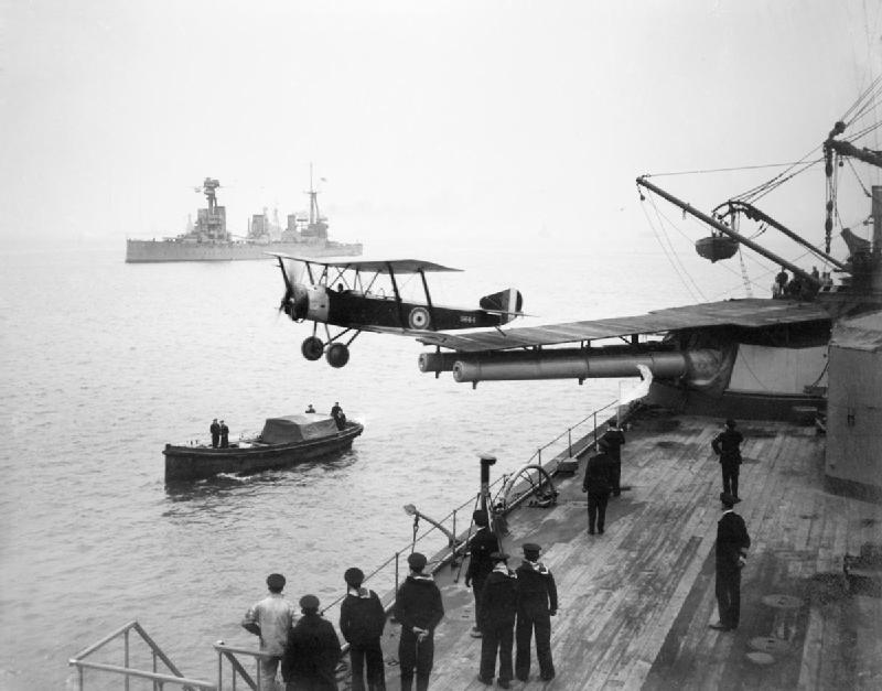 A Sopwith 1 1/2 Strutter biplane aircraft taking off from a platform built on top of HMAS Australia's midships "Q" turret.